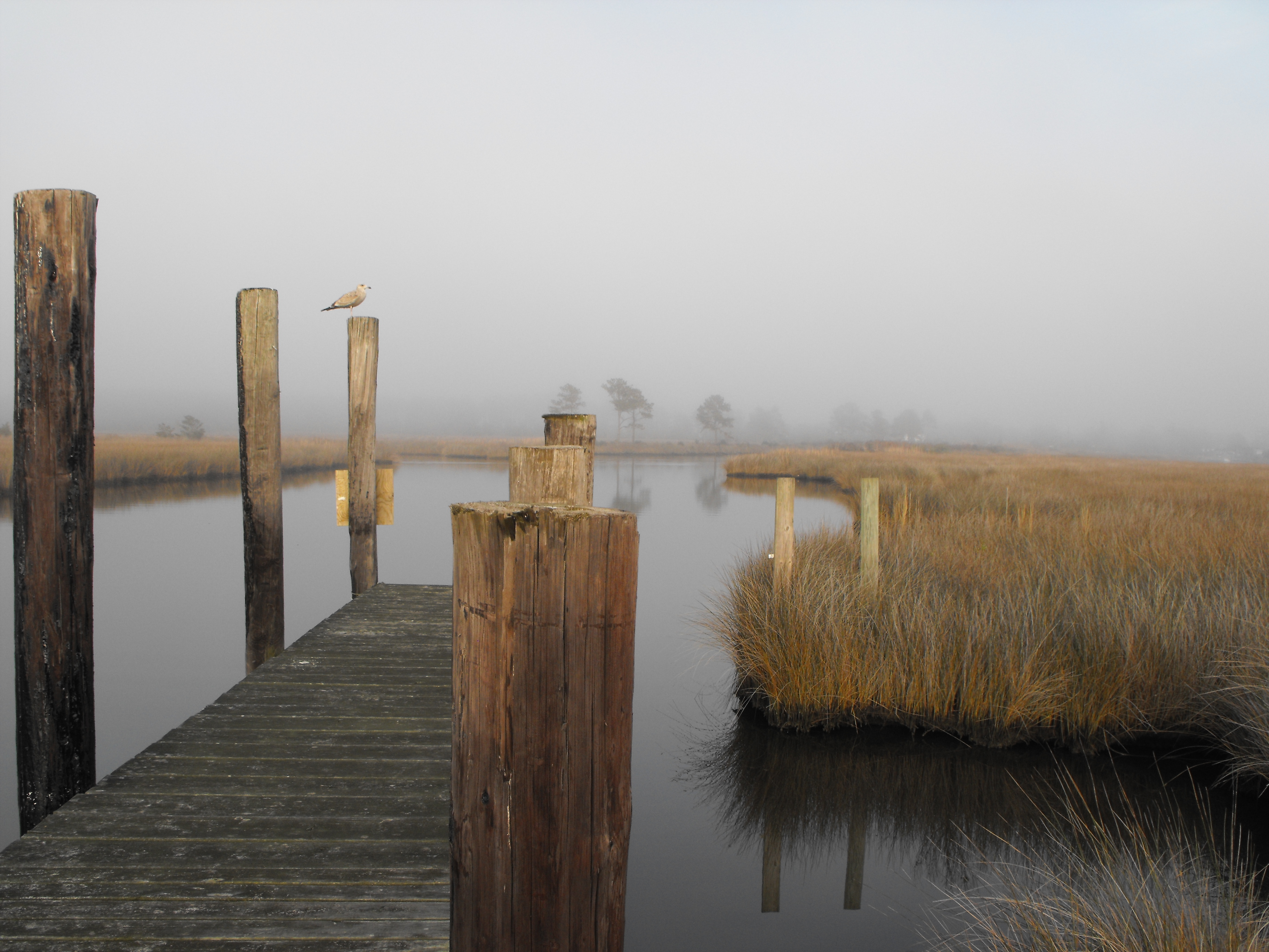 Swan Quarter Landing, NC